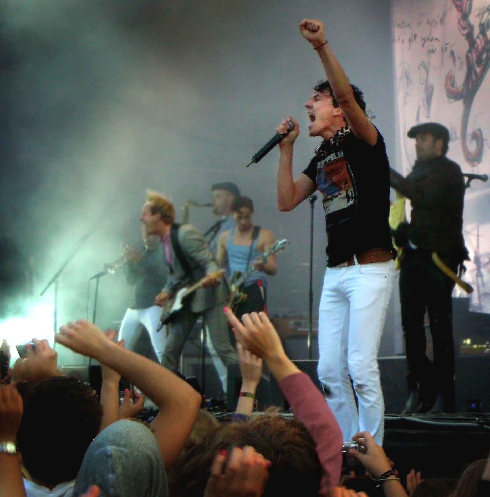 Swedish pop musician Håkan Hellström performing in Eskilstuna, Sweden.